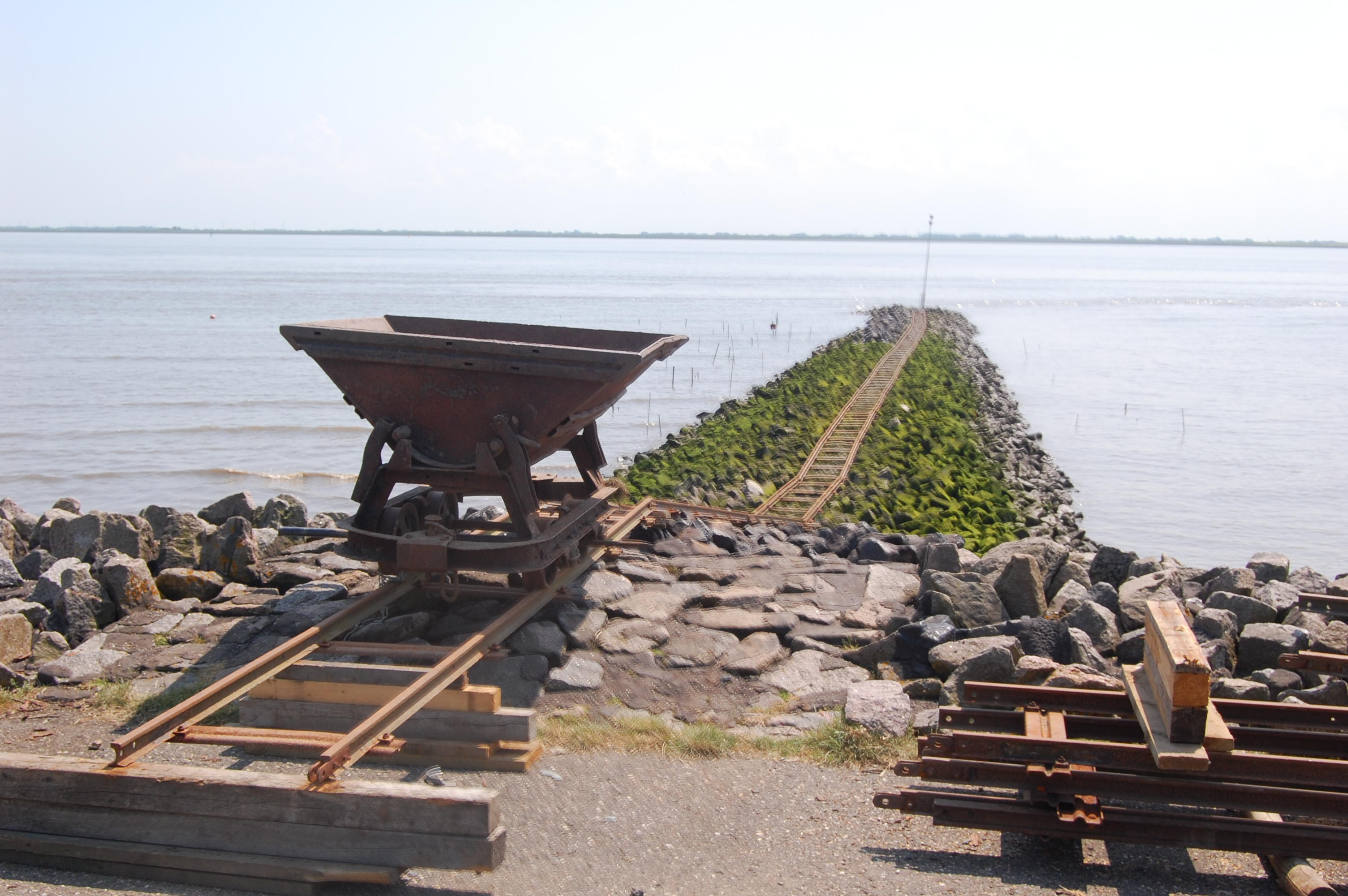 Repair work with a lorry at a river groyne in the river Elbe at Brunsbüttel, Germany